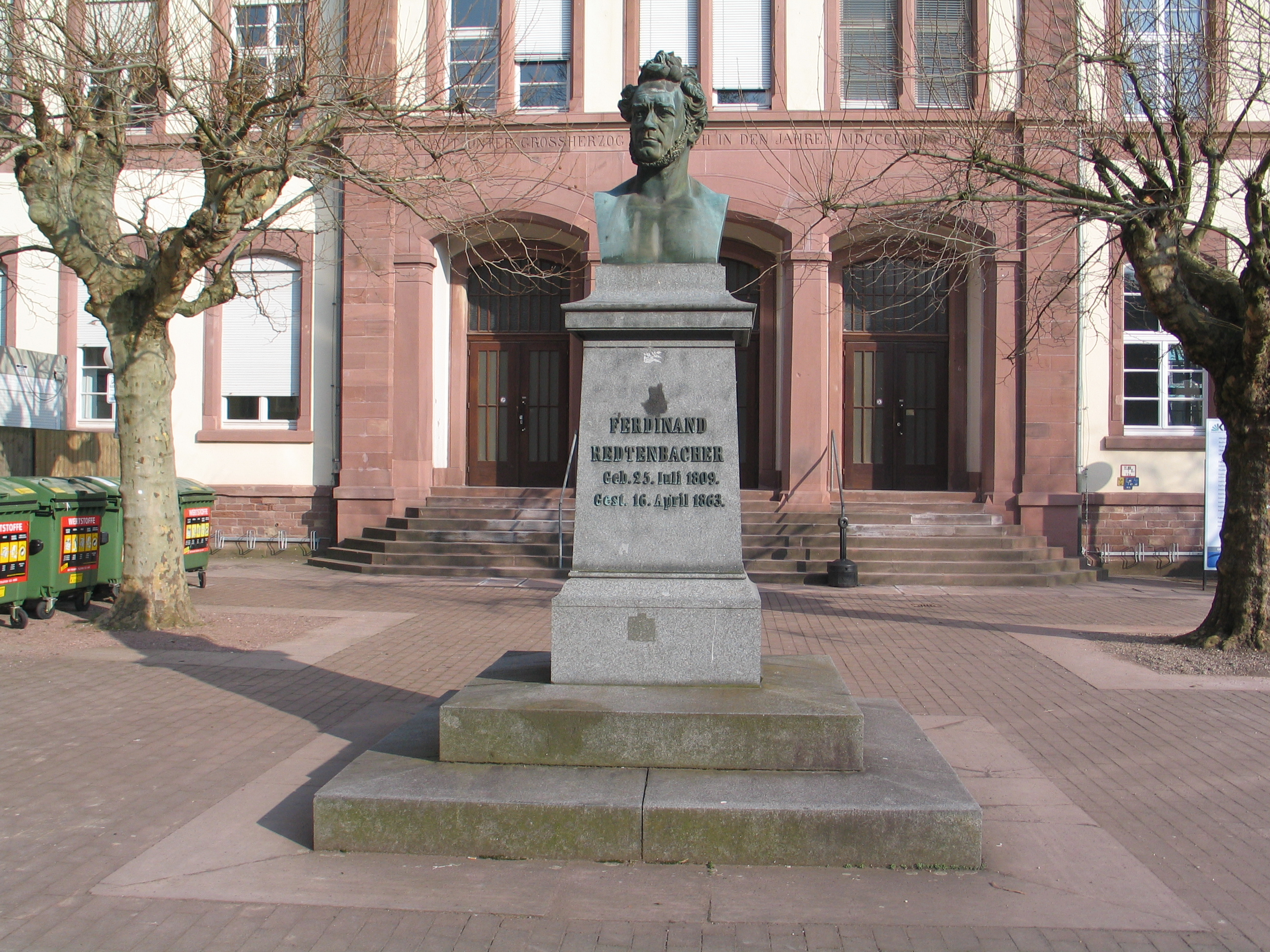 Statue of Ferdinand Redtenbacher in the "Ehrenhof" of the Karlsruhe Institute of Technology